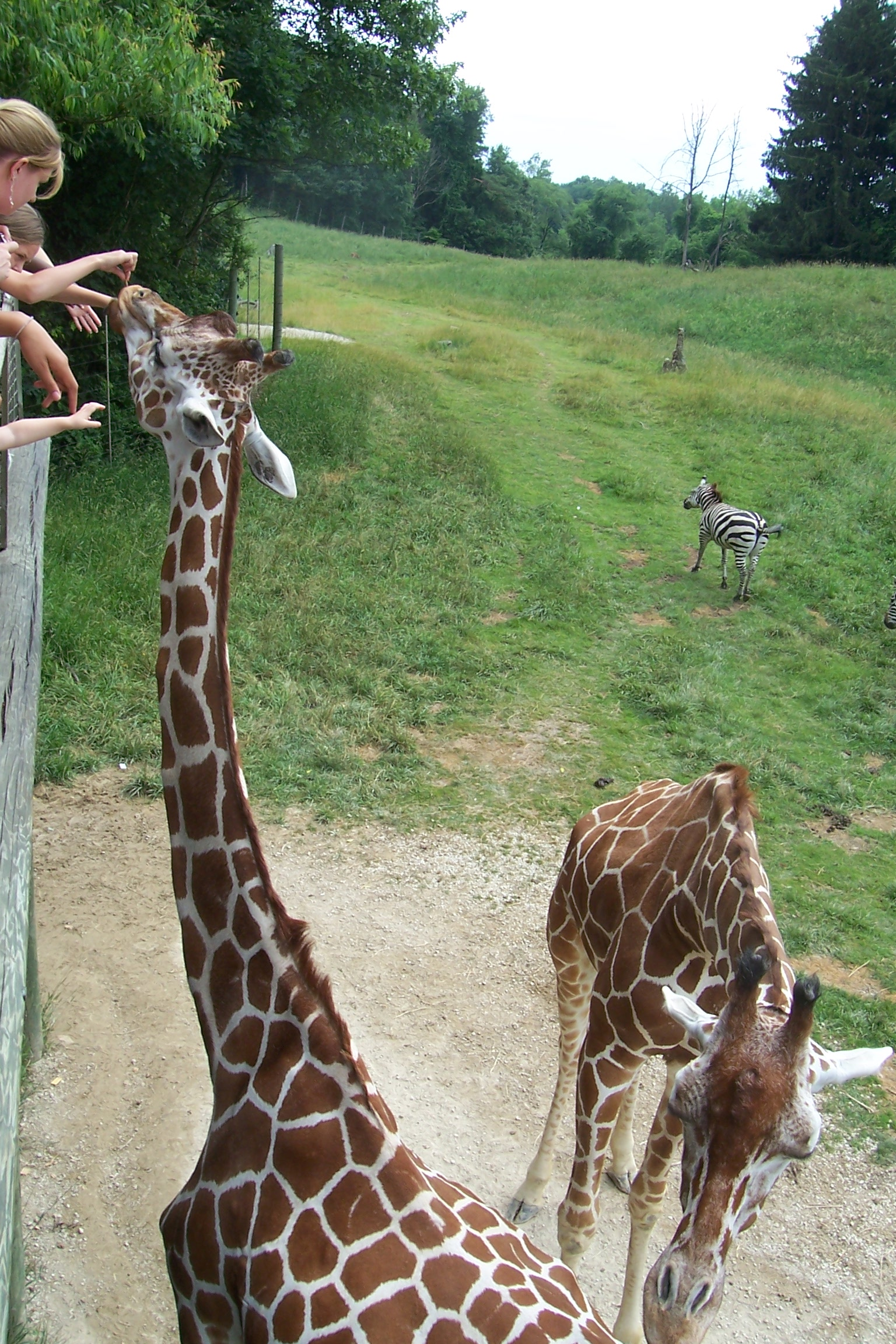 Reticulated Giraffes, feeding area at Binder Park Zoo. Plains Zebra in background.